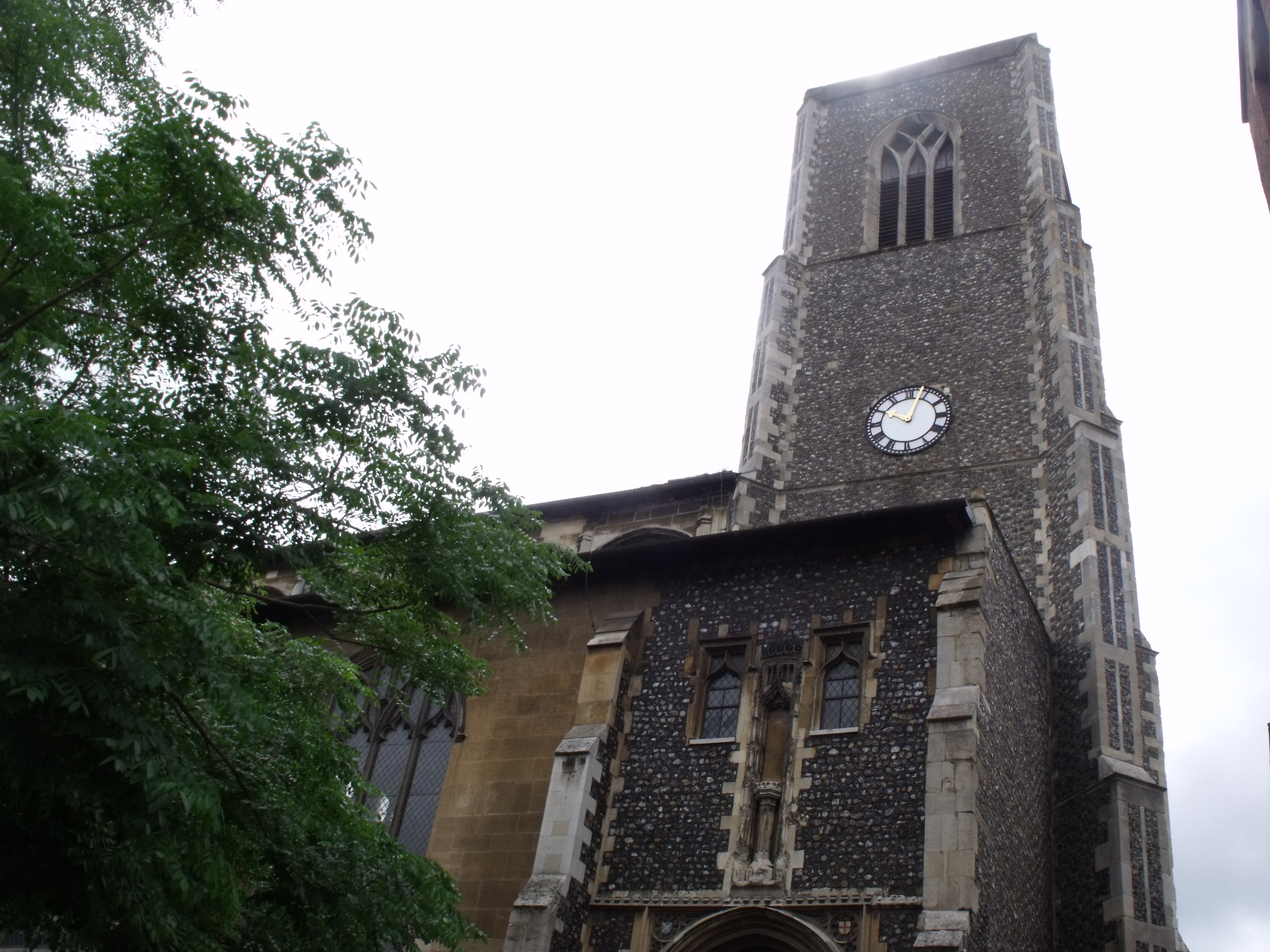 This is the Church of St Andrew on St Andrews Street, Norwich. It is Grade I listed building.